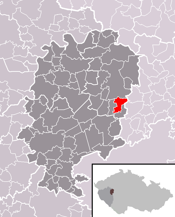 Location of Kařez municipality within Rokycany District and within identical administrative area of Rokycany as a Municipality with Extended Competence.